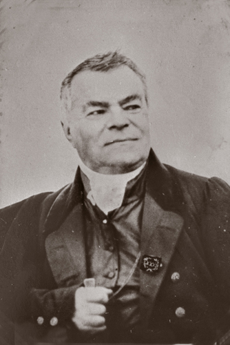 Architect Konstantin Thon